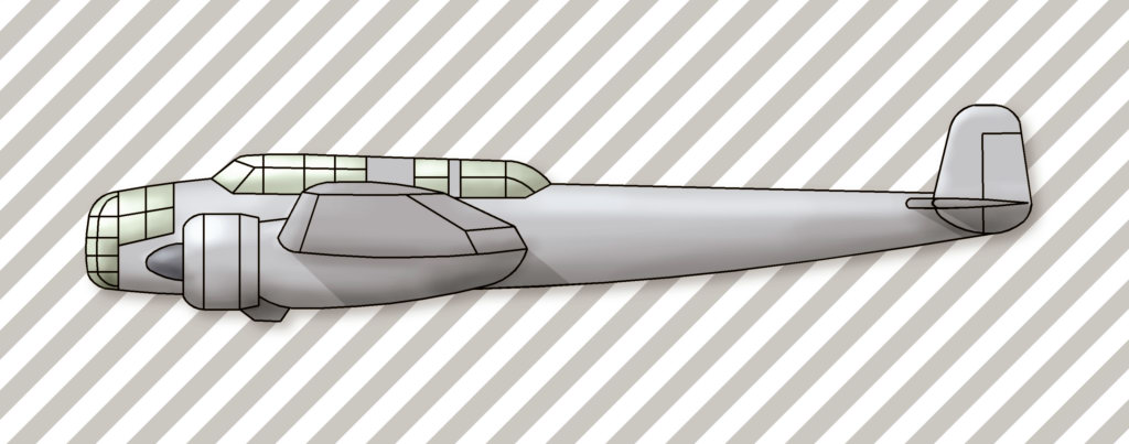 Henschel Hs 124 sketch